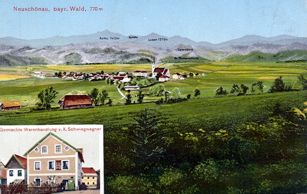 Postcard, dated 14.11.1917. Title: "Neuschönau, Bavarian Forest, 770m - Grocery store of X.Schwiegwagner."